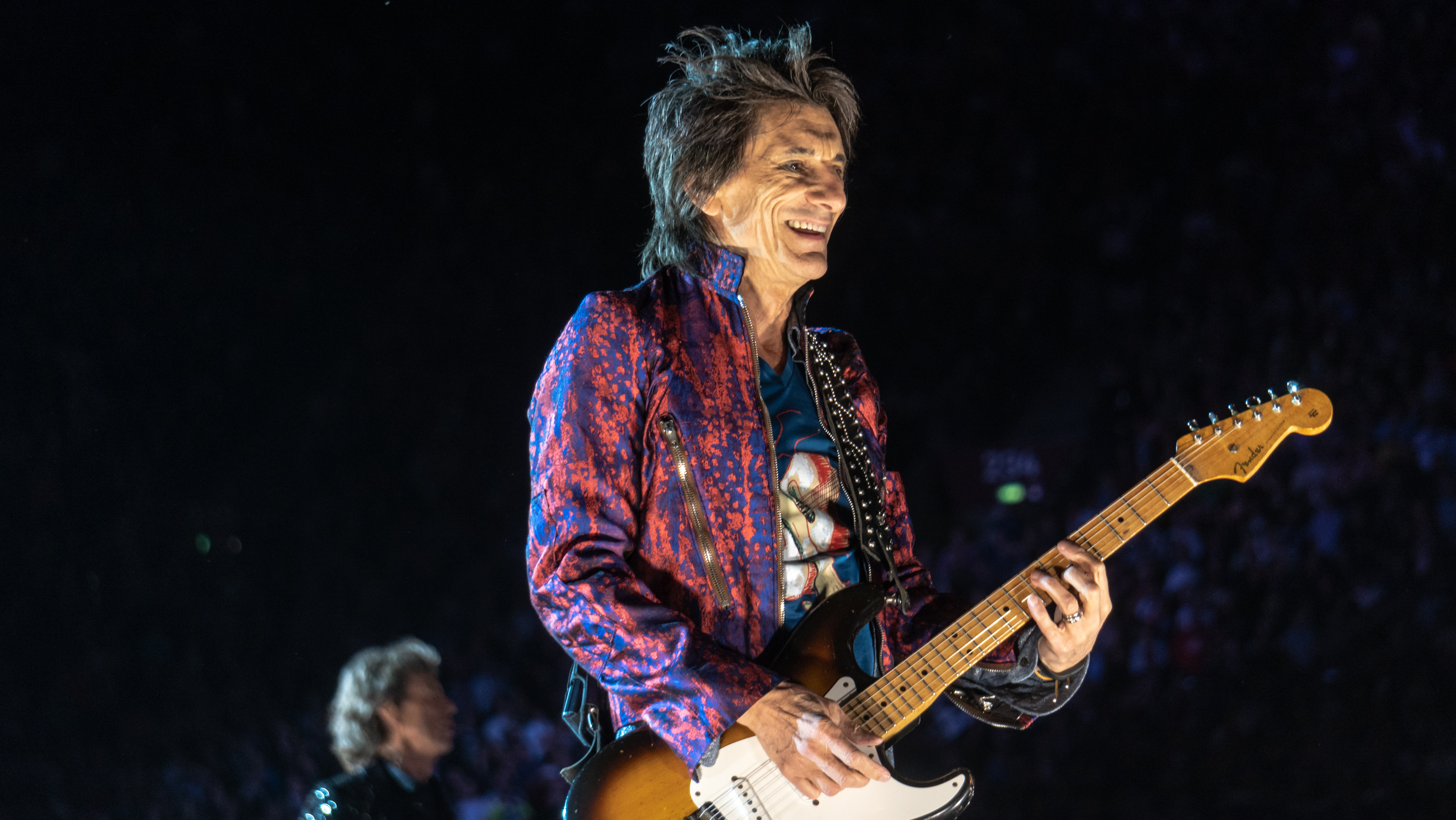 StonesLondon220518-77